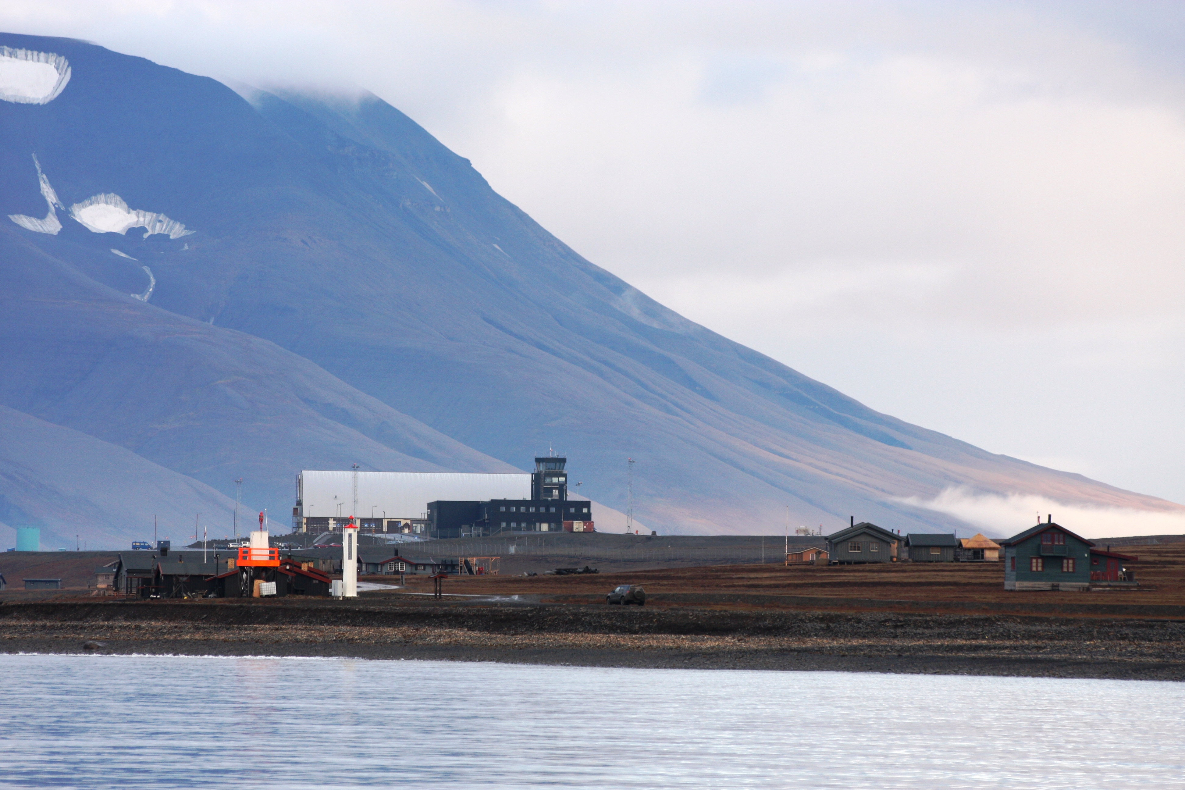 Vestpynten with Longyear Airport, Svalbard. With Vestpynten lighthouse from the 1930s.